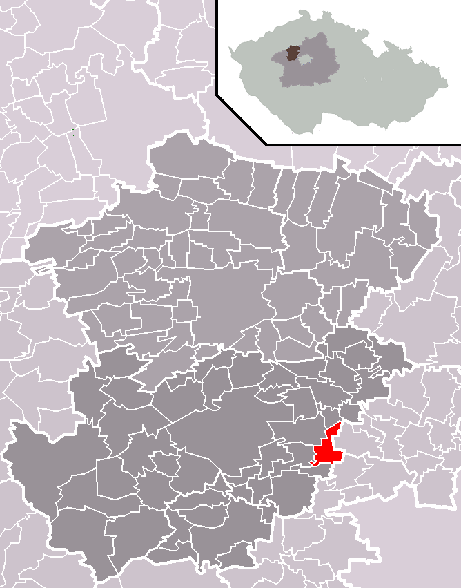 Location of Makotřasy municipality within Kladno District and administrative area of Kladno as a Municipality with Extended Competence.